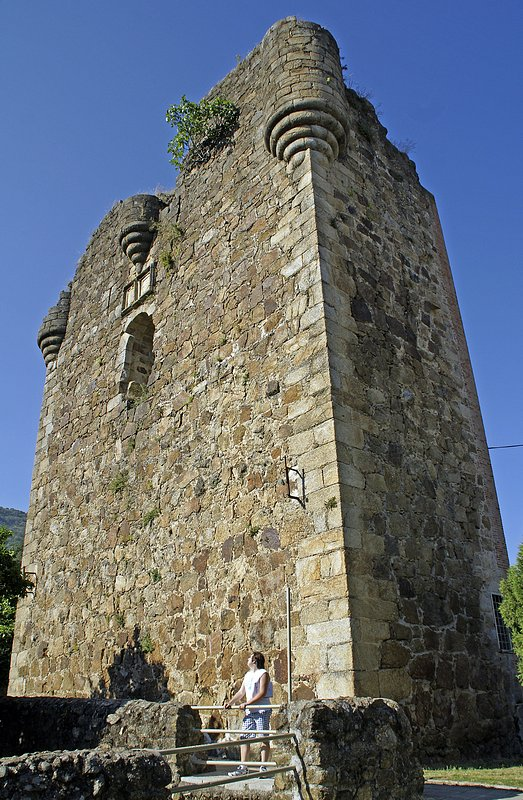 Castillo